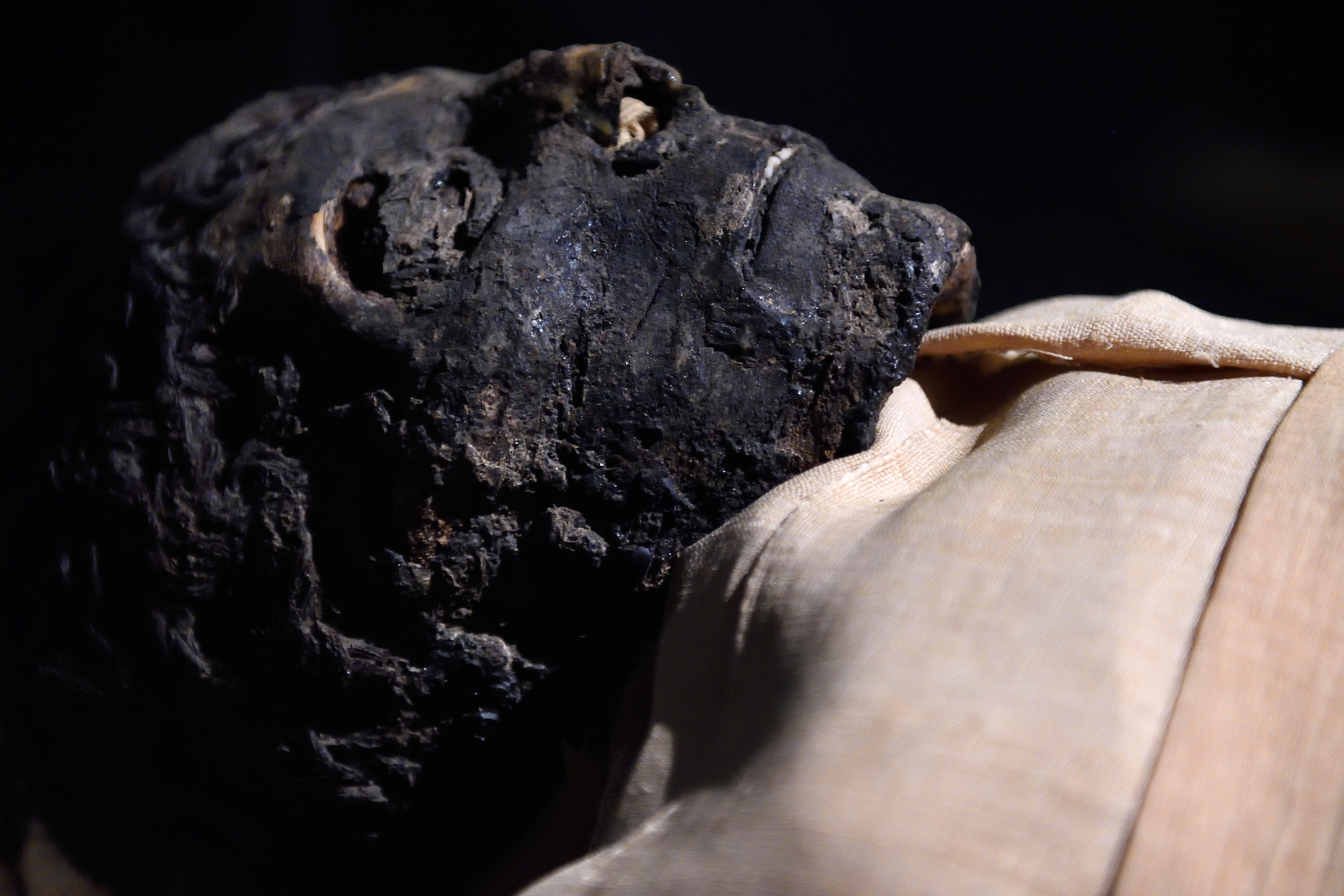 Ahmose Mummy at Luxor Museum in Luxor Egypt